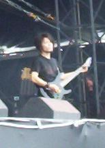 Cropped from this image